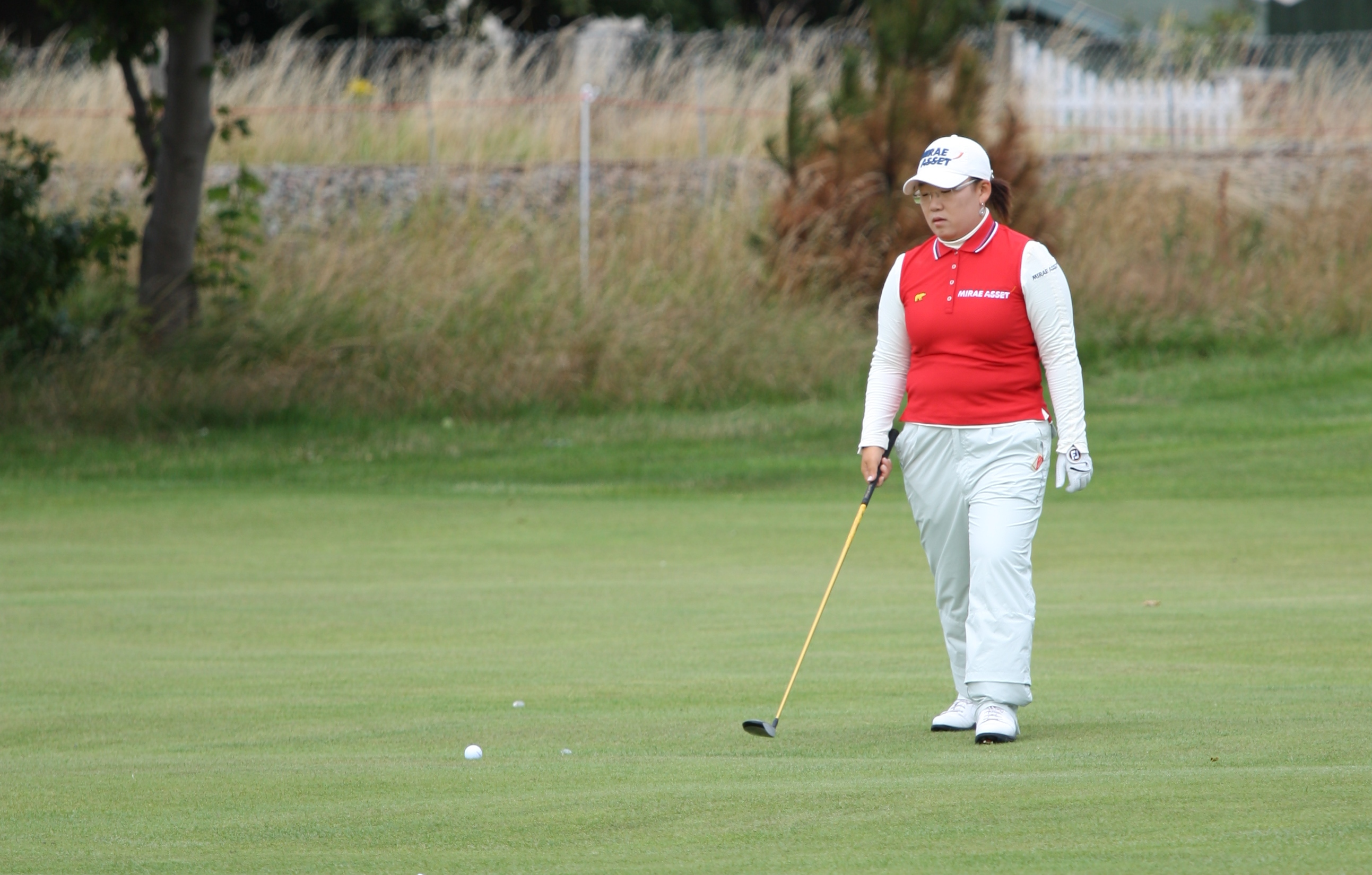 LYTHAM ST ANNES, UNITED KINGDOM - JULY 28: Jiyai Shin of South Korea prepares for her second shot at the 2nd fairway during second practice round before 2009 Ricoh Women's British Open held at Royal Lytham & St Annes on July 28, 2009 in Lytham St Annes, England. (Photo by Wojciech Migda)